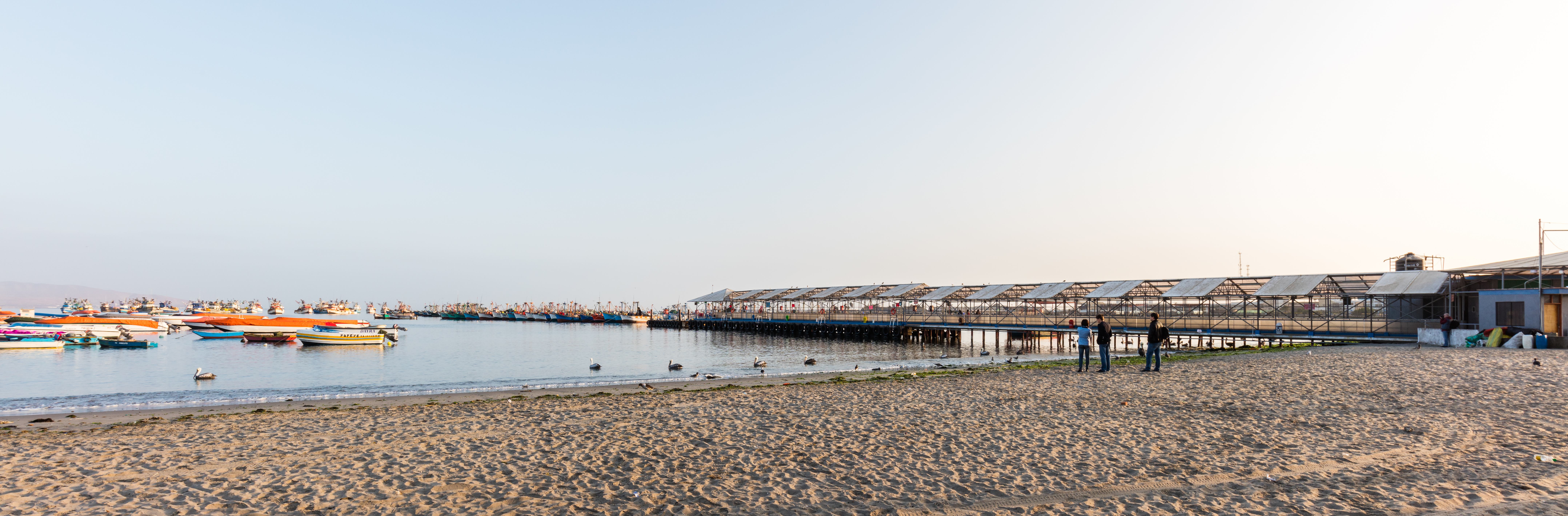 Port of Paracas, Peru